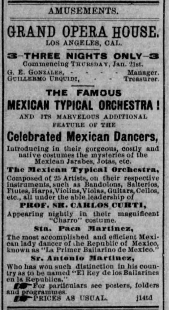 Advertisement in the Los Angeles Herald (21 Jan 1886, Thu, First Edition) for the Mexican Typical Orchestra. Includes description of the players and dancers and mentions Carlo Curti.